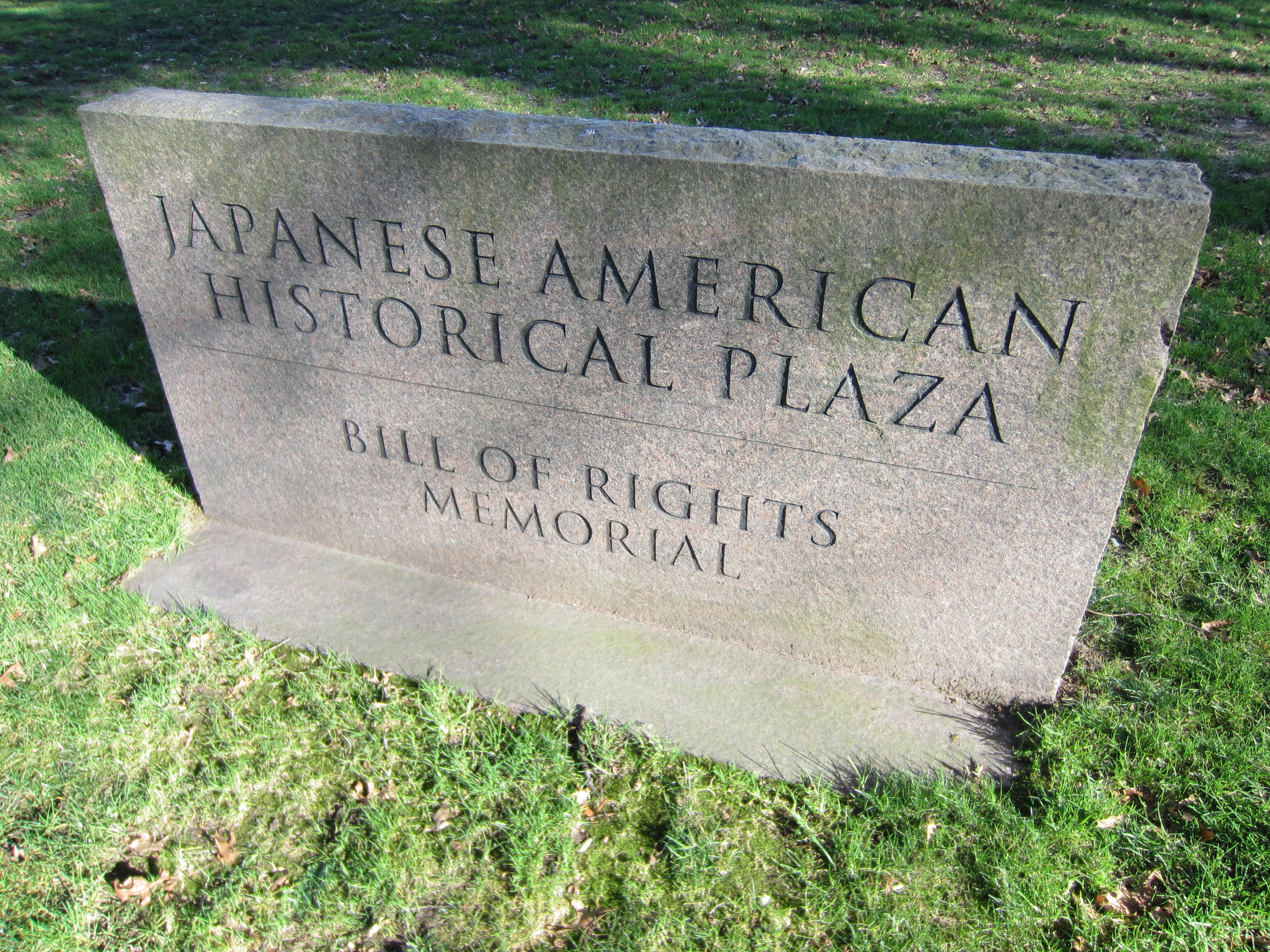 Japanese American Historical Plaza at Tom McCall Waterfront Park in downtown Portland, Oregon in 2012